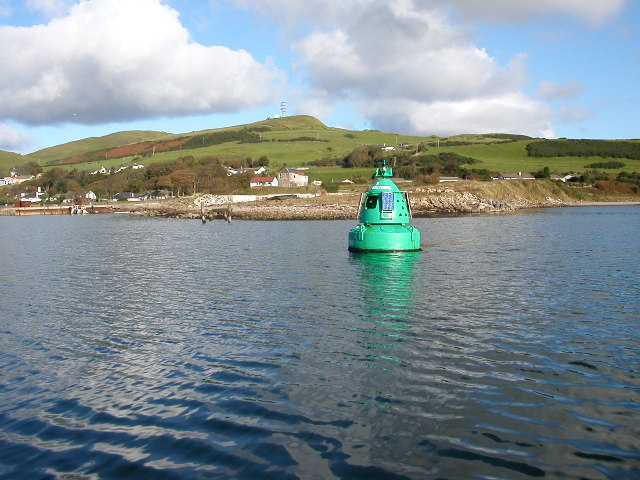 Trench Point, Campbeltown Loch, Kintyre. Campbeltown Shipyard once stood here, well known for building excellent fishing boats and other ships.